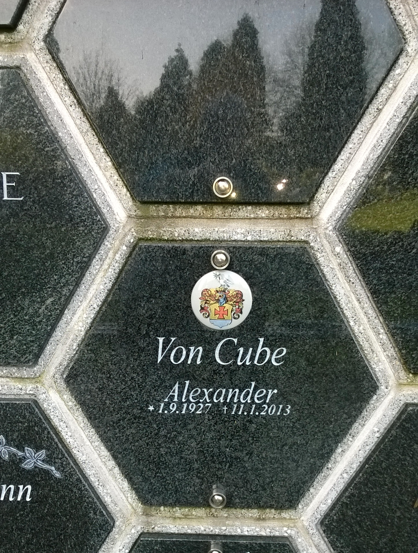 Urnengrab Alexander von Cube auf dem Friedhof Overath-Rappenhohn